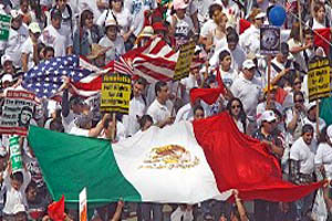 Protesters Carry the Mexican flag during a May 1 2006 Boycott March.